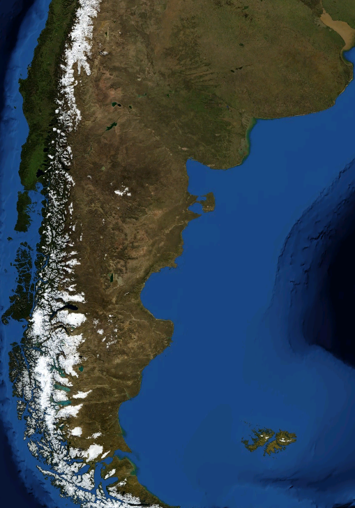 NASA World Wind 1.4 used.